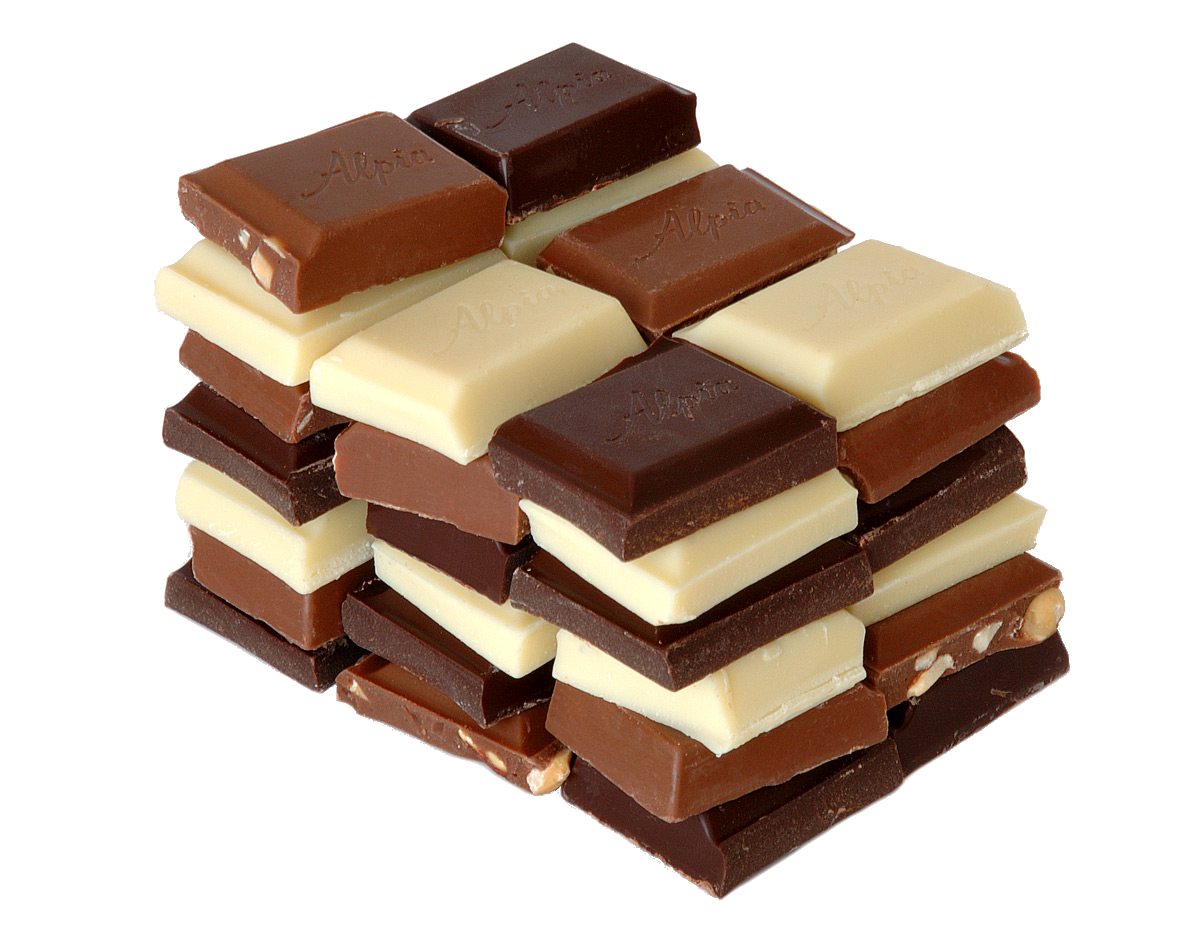 File:Chocolate.jpg on white background